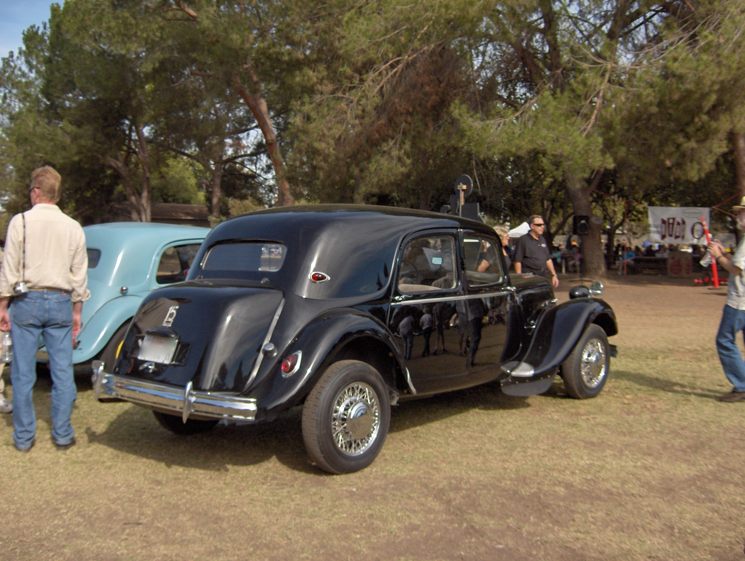 Own work - public location.